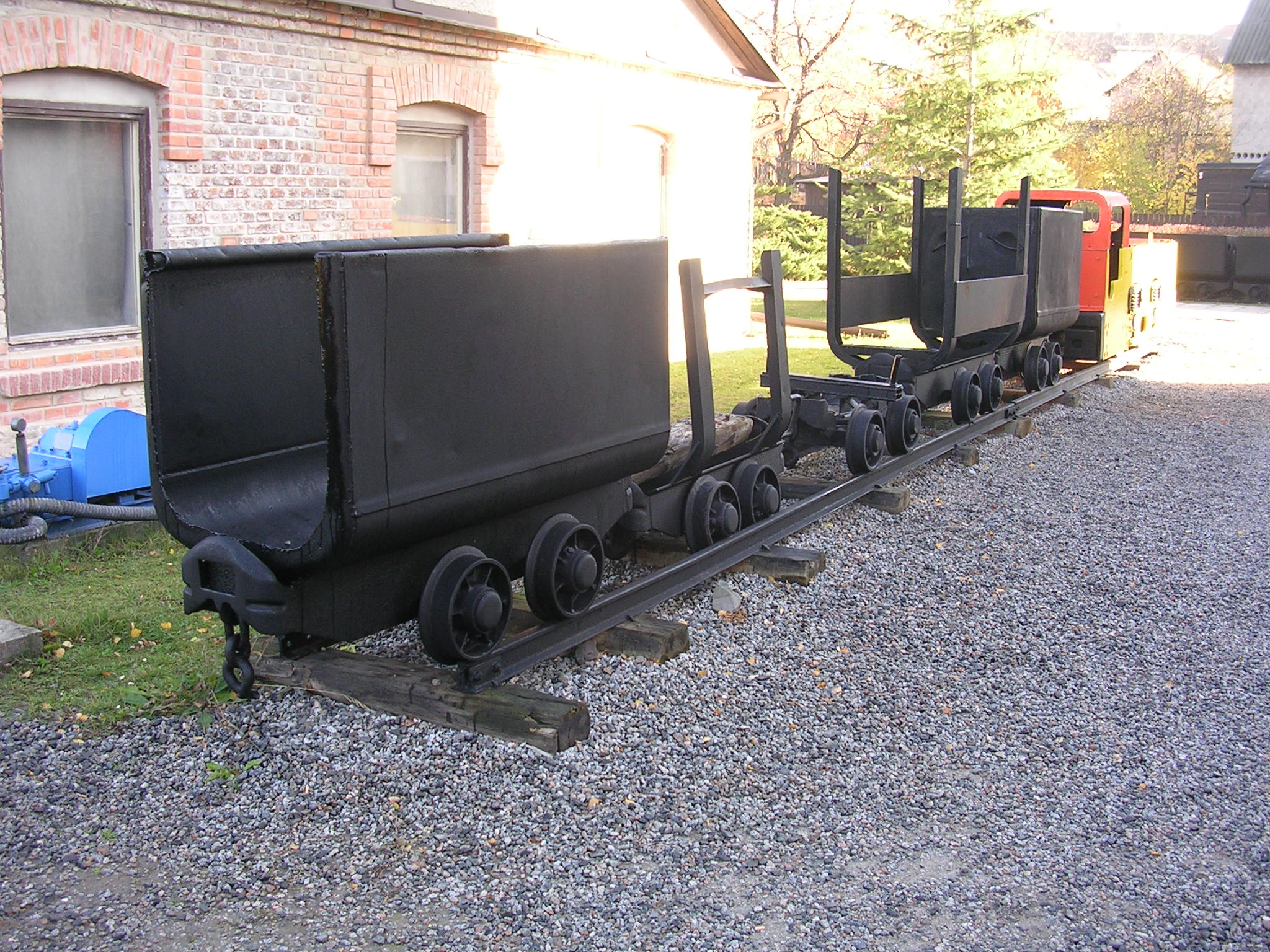 Příbram, mining museum.